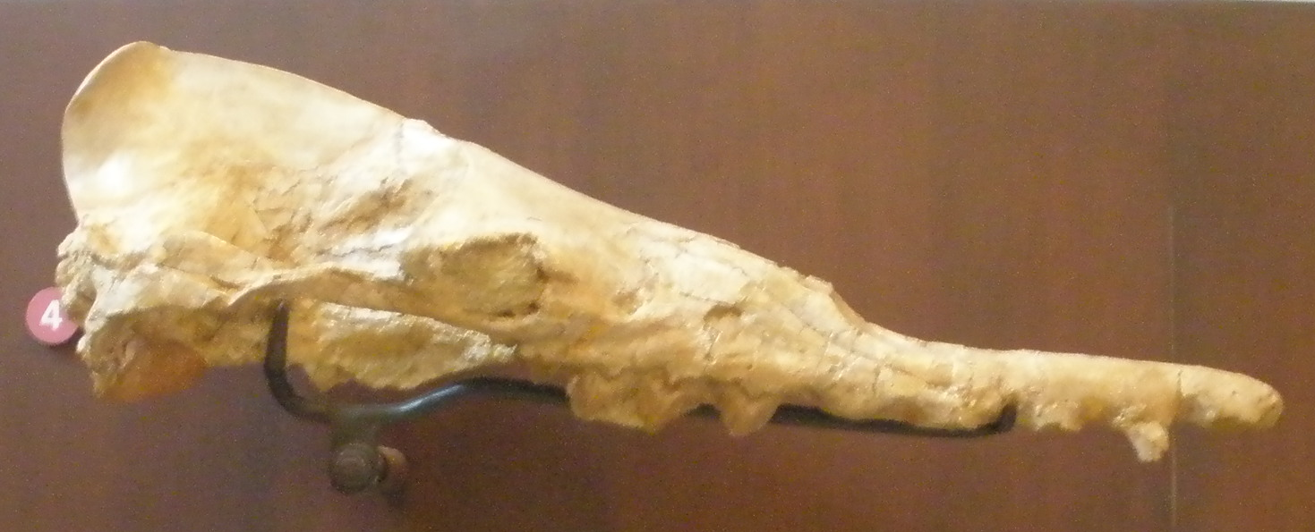 skull of Saghacetus osiris